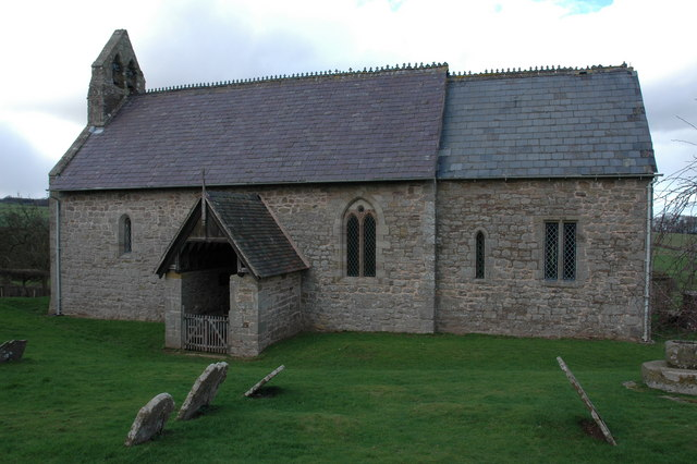 St Mary's church, Wormsley, near to Wormsley, Herefordshire, Great Britain. This church which is up a no through road next to Court House in Wormsley is in the car of The Churches Preservation Trust. Parts of the church date back to Norman times.